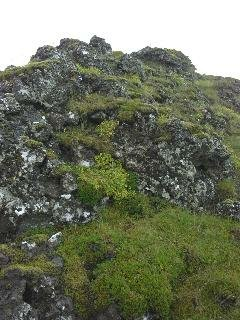 Galgahraun, near Reykjavík, Iceland